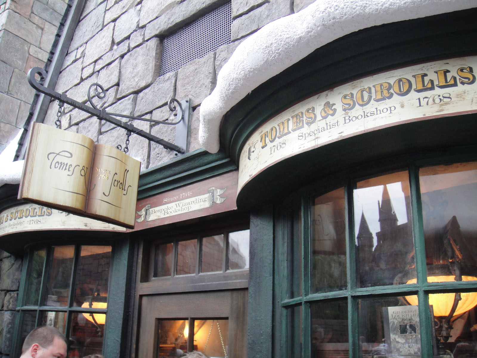 Wizarding World of Harry Potter - Bespoke Wizarding Bookshop - Tomes & Scrolls